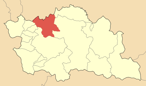 Locator map of Kosma tou Aitolou municipality (Δήμος Κοσμά του Αιτωλού) at Grevena perfecture, Greece.